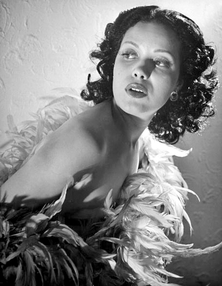 Portrait photograph of Hilda Simms, star of the play Anna Lucasta Caption reads as follows: Anna Lucasta's Hilda Simms is 26. At University of Minnesota she studied dramatics, taught it at Hampton Institute. She is married to an Army sergeant.